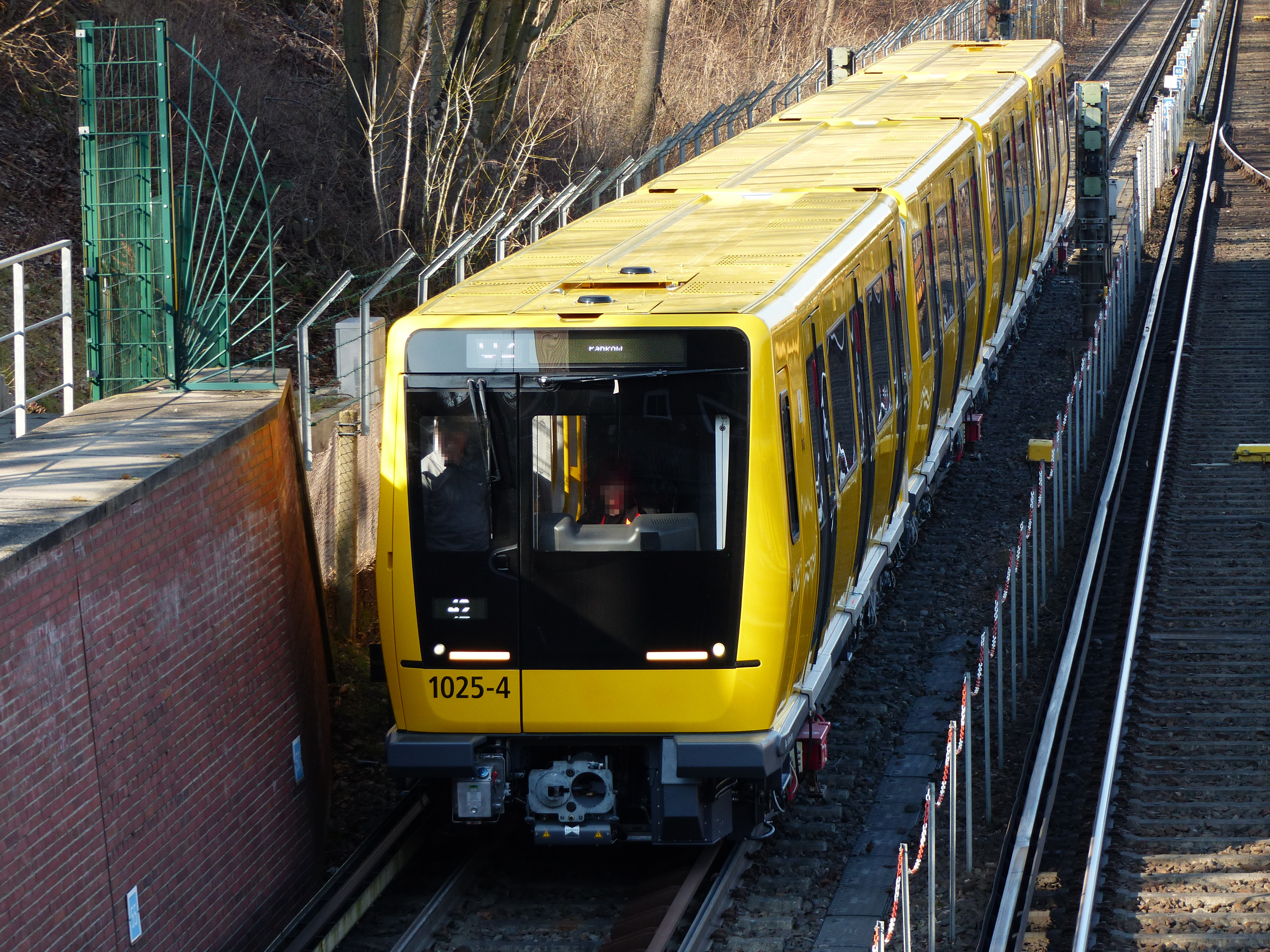 Berlin's U-Bahn train type IK, for testing purposes at Olympia-Stadion station, close to the Grunewald depot